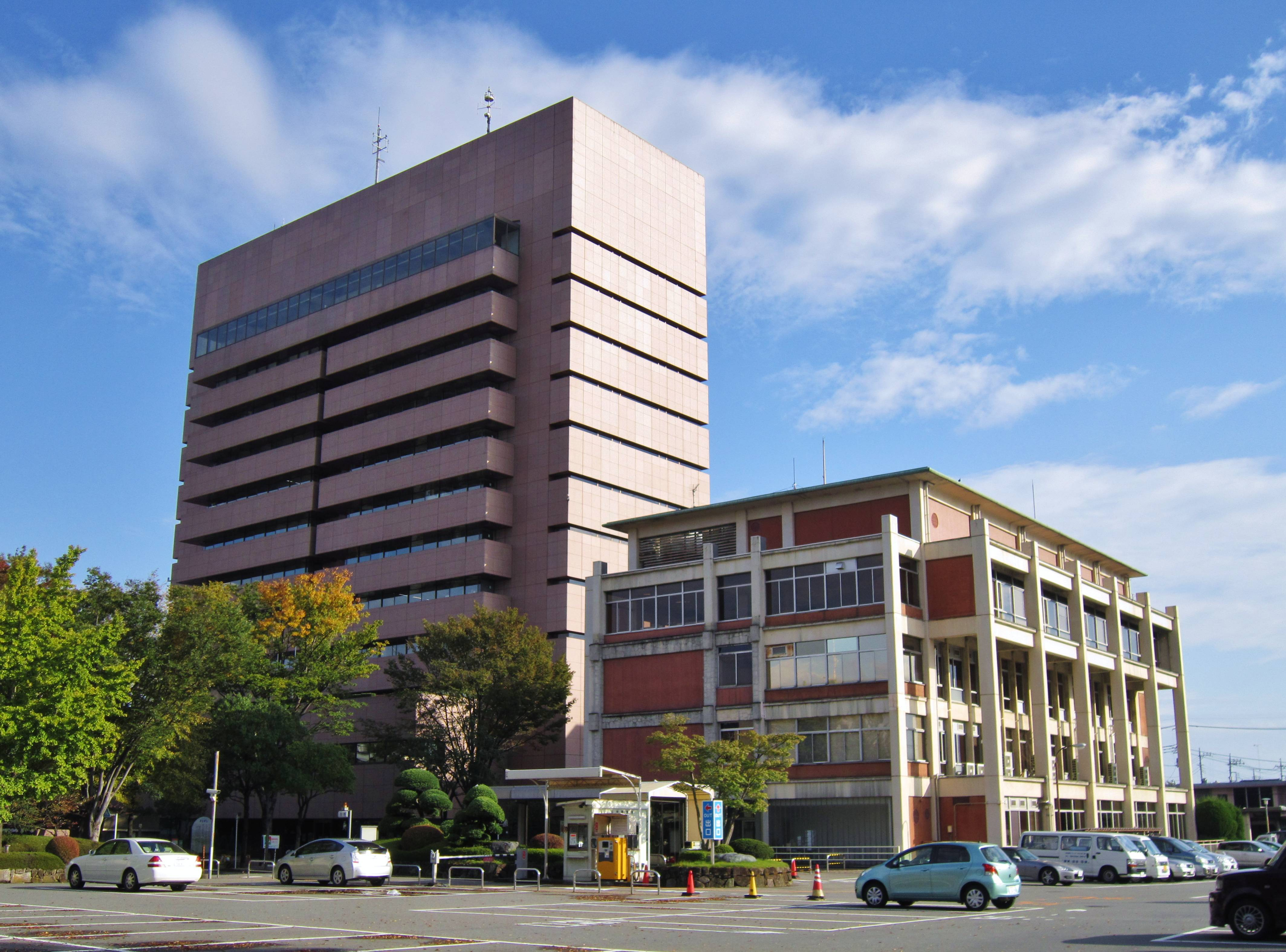 Maebashi city office.